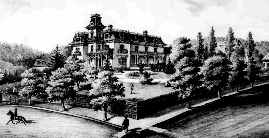 The William S. Ladd House in Portland, Oregon from The West Shore in 1881. It was located across the street (7th St., now Broadway) from the 1883-built Ladd Carriage House, which still stands. The main house (illustrated here), was torn down in 1926.